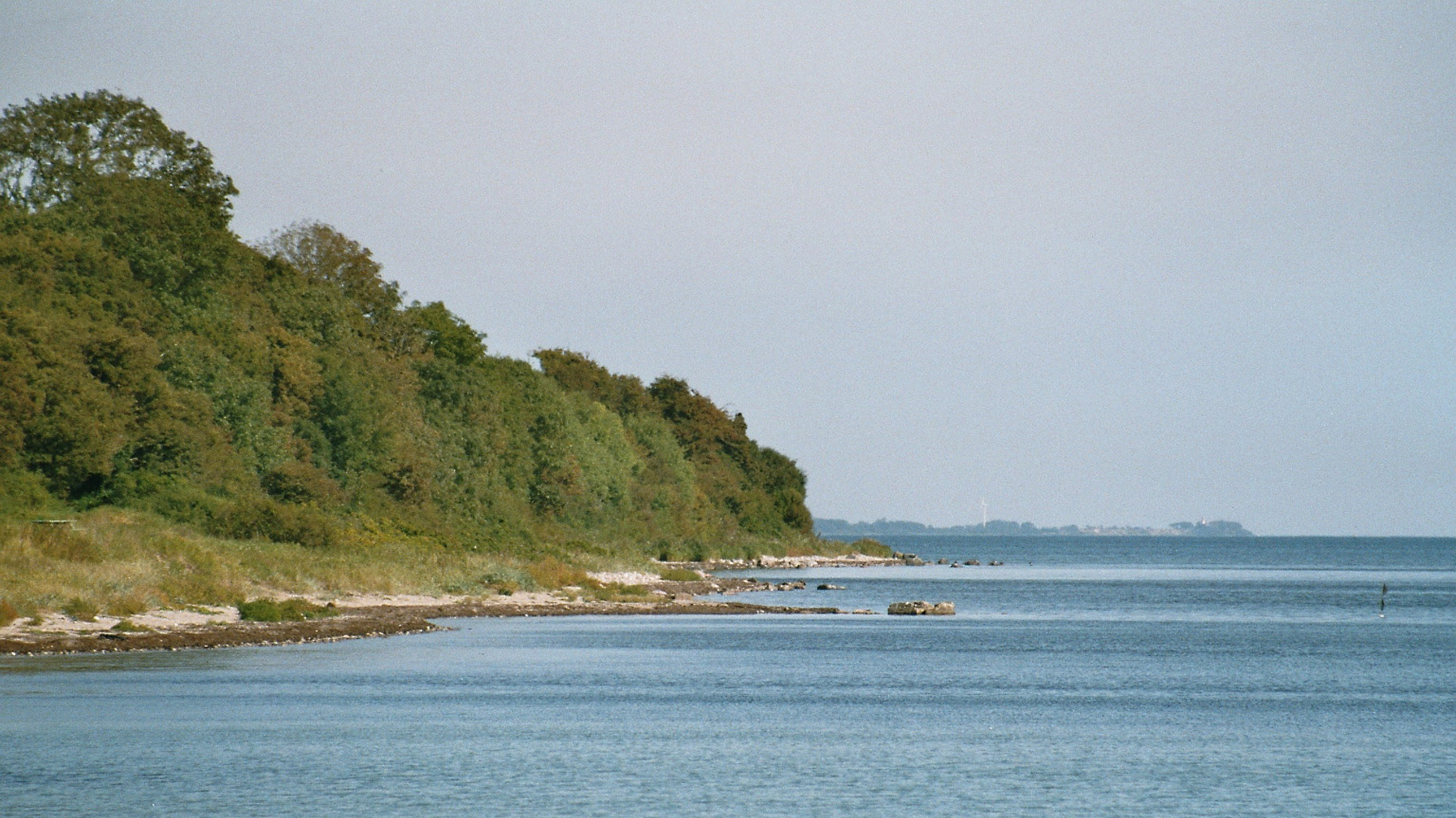 The beach of Kragesand (Broager)